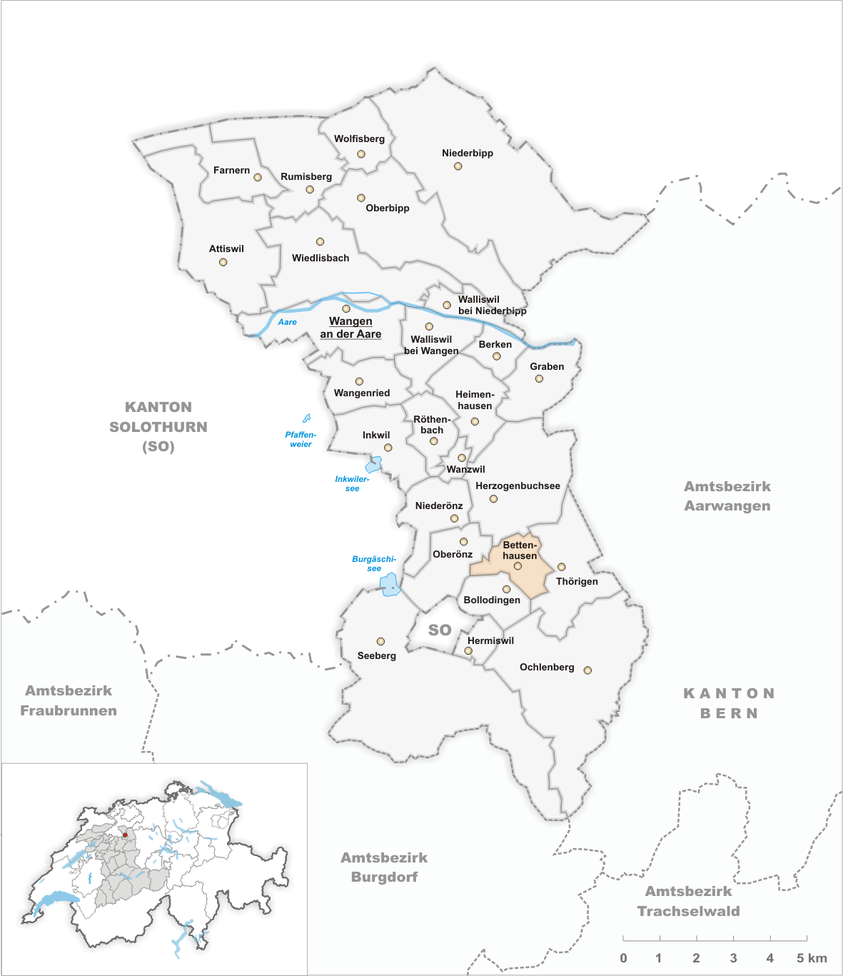 Municipality Bettenhausen